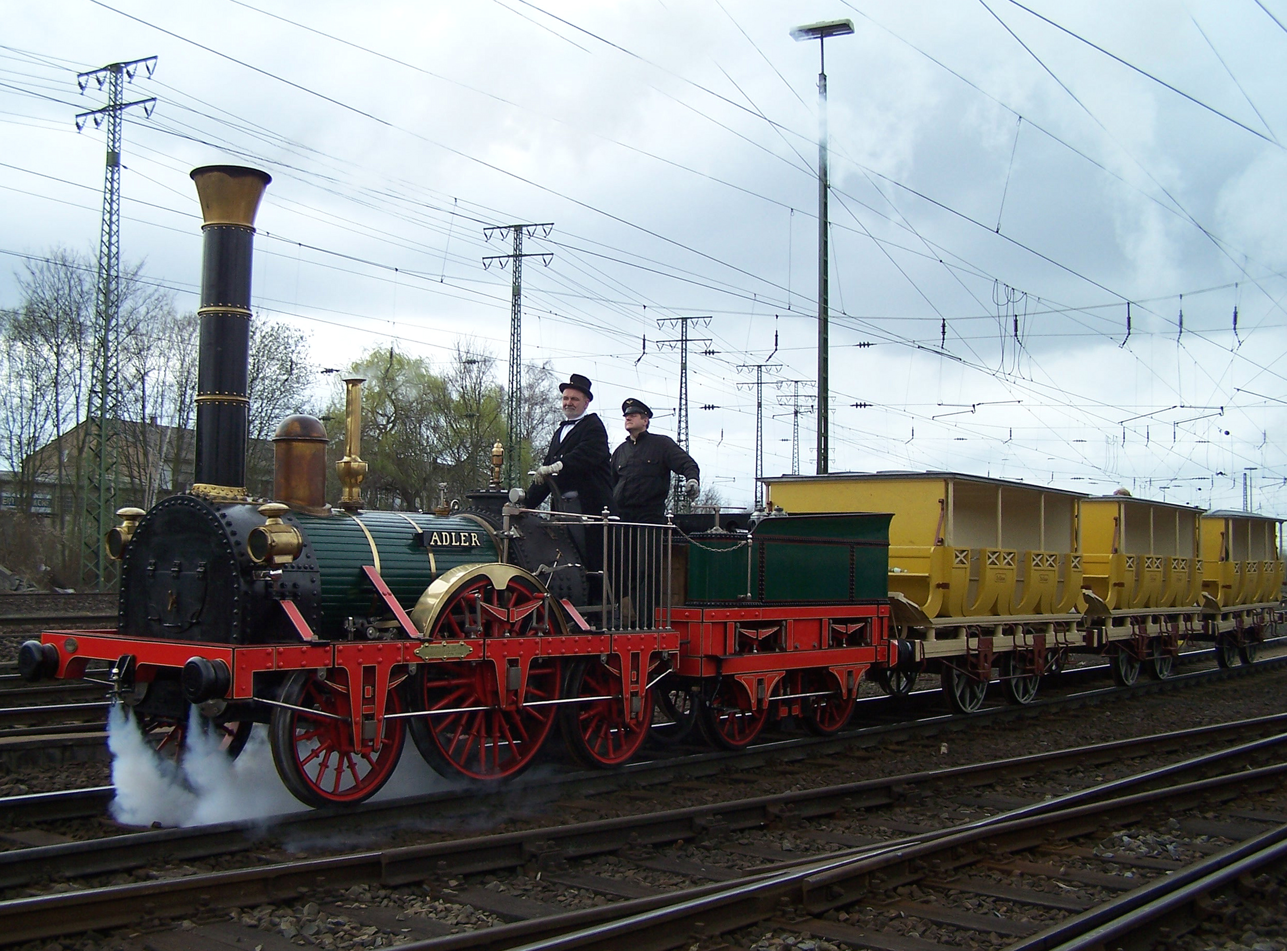 reconstruction of the first steam locomotive in Germany Adler (reproduction of 1935, rebuilt 2007), at the DB Museum in Koblenz-Lützel, a local branch of the Transport Museum in Nuremberg, April 2010